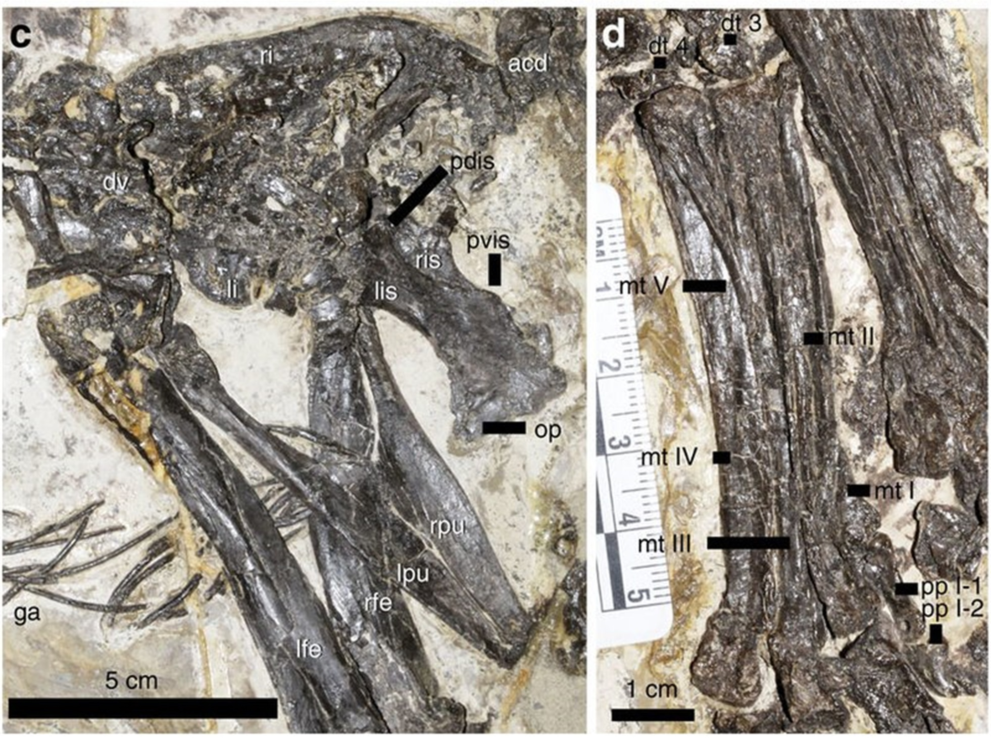 Figure 4: Non-vertebral postcranial skeleton of Jianianhualong tengi holotype DLXH 1218. (a) Shoulder girdle, (b) right manus, (c) pelvis and (d) left pes. Scale bar, 5 cm except in d, where it is 1 cm instead. ac, acromial process; acd, anterior caudal vertebrae; co, coracoid; dc 4, distal carpal 4; dr, dorsal ribs; dt 3, distal tarsal 3; dt 4, distal tarsal 4; dv, dorsal vertebrae; fu, furcula; ga; gastralia; lfe, left femur; lh, left humerus; li, left ilium; lis, left ischium; lpu, left pubis; ls, left scapula; mc II to IV, metacarpals II to IV; mp II-1 to II-2, manual phalanges II-1 to II-2; mp III-1 to III-3, manual phalanges III-1 to III-3; mp IV-1 to IV-4, manual phalanges IV-1 to IV-4; mt I to V, metatarsals I to V; pp I-1 to I-2, pedal phalanges I-1 to I-2; pdis, dorsal posterior process of ischium; pvis; ventral posterior process of ischium; r, radius; ra?, radialae?; rfe, right femur; rh, right humerus; ri, right ilium; ris, right ischium; rpu, right pubis; rs, right scapula; slc, semi-lunate carpal; u, ulna.